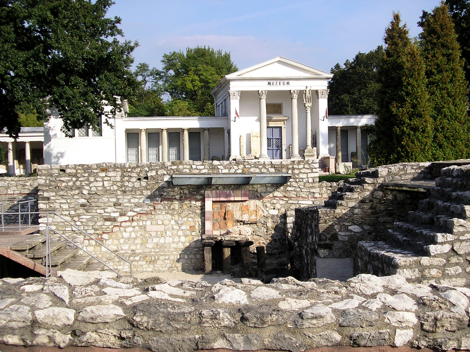 Aquincum Museum, Budapest. The archaeological park.